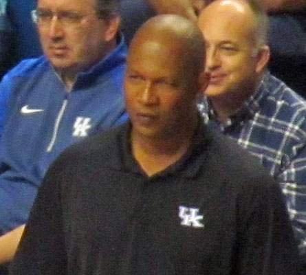 Kentucky Wildcats men's basketball assistant coach Kenny Payne at the team's 2014 Blue-White scrimmage at Rupp Arena in Lexington, Kentucky